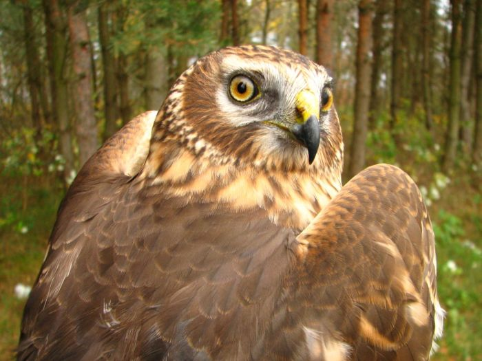 Hen Harrier (Circus cyaneus), young male